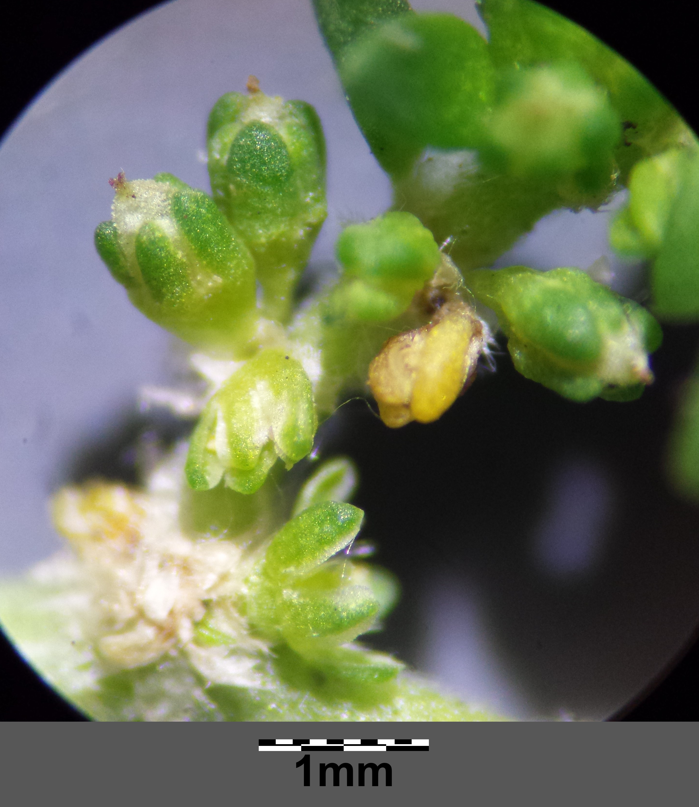 Inflorescence/Infructescence Taxonym: Herniaria glabra ss Fischer et al. EfÖLS 2008 ISBN 978-3-85474-187-9 Location: Unterschleißheim, district München, Bavaria, Germany - ca. 473 m a.s.l. Habitat: gap in road surface